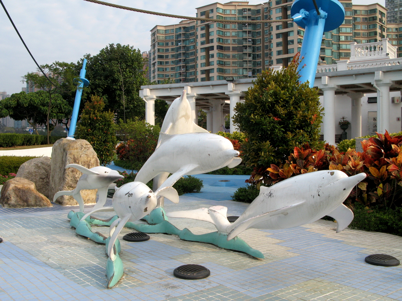 HK Ma On Shan Park Dolphin Sculpture